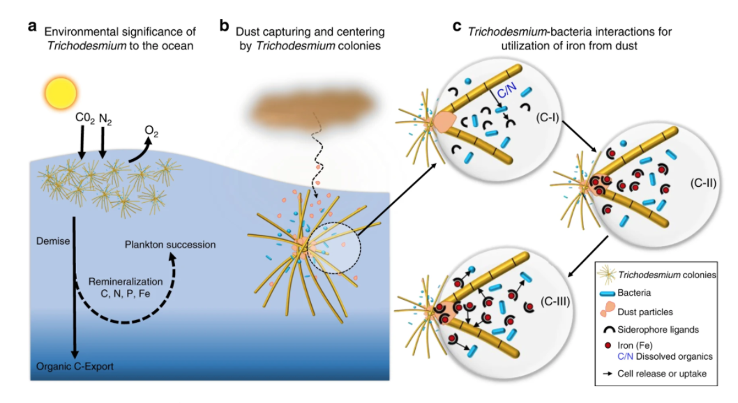 Cartoon representation of the proposed dust-bound Fe acquisition pathway employed mutually by Trichodesmium colonies and associated bacteria. a The N2-fixing marine cyanobacterium Trichodesmium spp., which commonly occurs in tropical and sub-tropical waters, is of large environmental significance in fertilizing the ocean with important nutrients. b Trichodesmium can establish massive blooms in nutrient poor ocean regions with high dust deposition, partly due to their unique ability to capture dust, center it, and subsequently dissolve it. c The current study explores biotic interactions within Trichodesmium colonies that lead to enhanced dissolution and acquisition of iron from dust. Bacteria residing within the colonies produce siderophores (c-I) that react with the dust particles in the colony core and generate dissolved Fe (c-II). This dissolved Fe, complexed by siderophores, is then acquired by both Trichodesmium and its resident bacteria (c-III), resulting in a mutual benefit to both partners of the consortium.